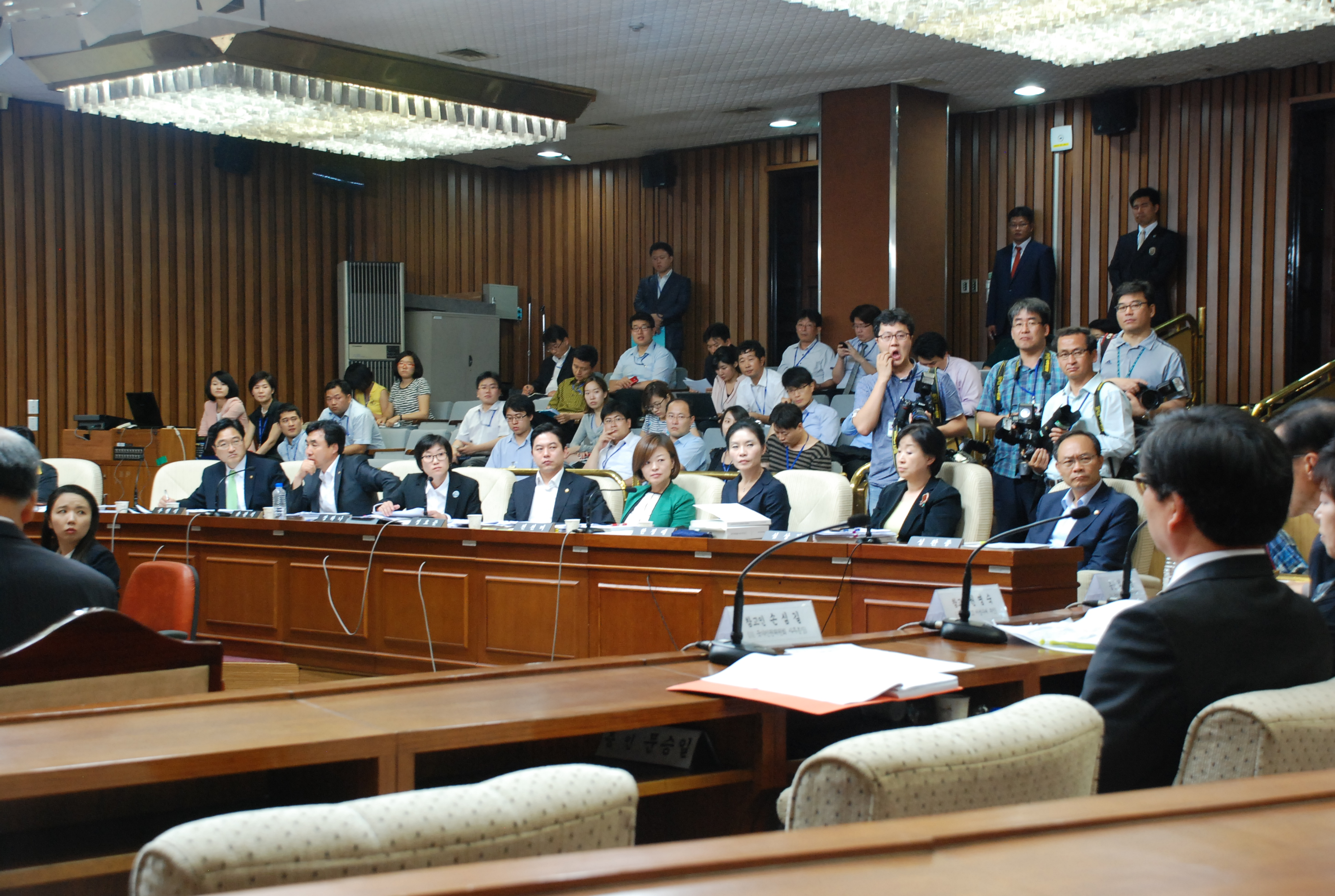 Woo Wonshik, Youn Kwansuk, Jang hana, Chyung Hojoon, Jin Sunmee, Sim Sangjung and Sung Woanjong in 2012.